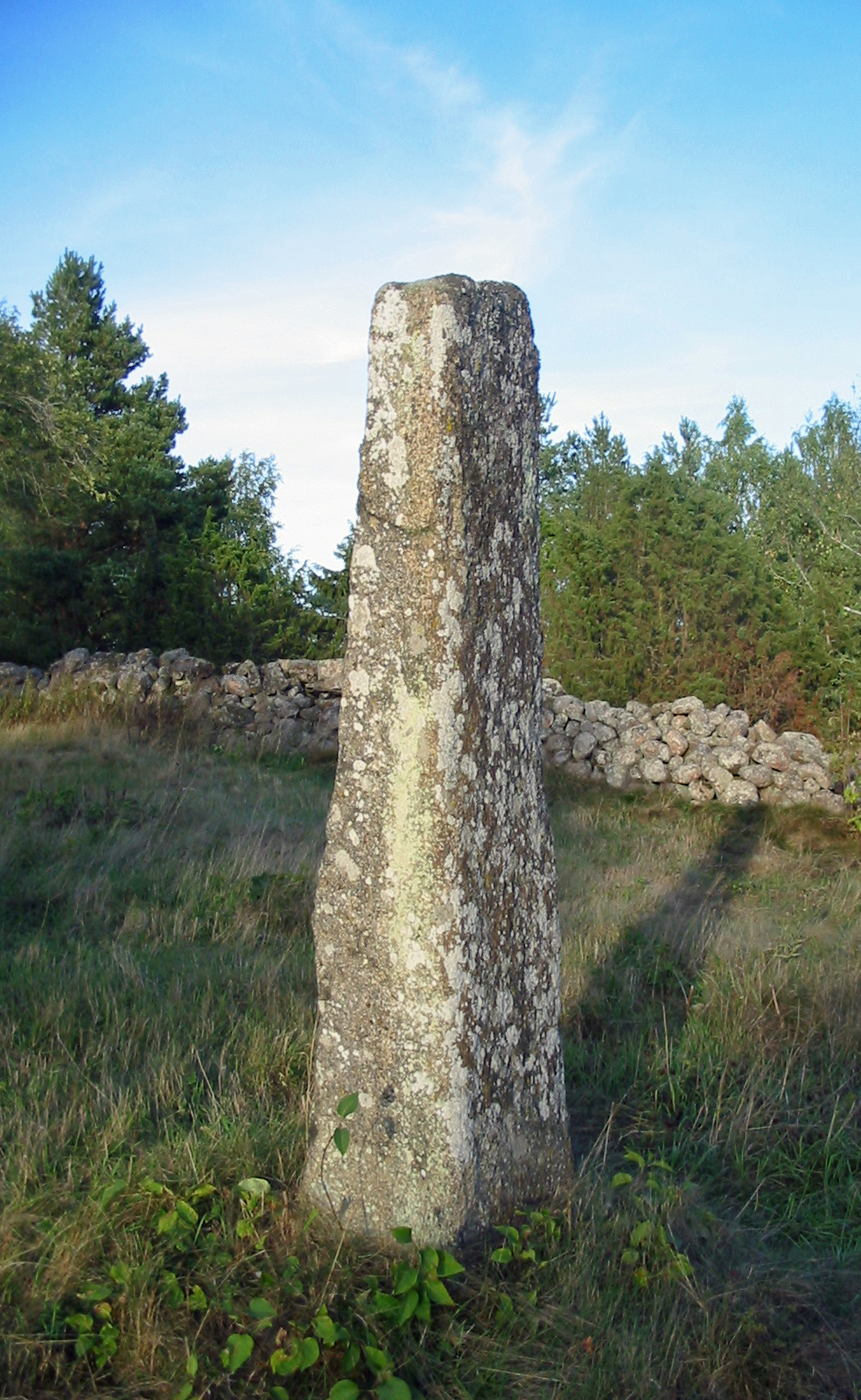 Kalevanpojan viikatteetikku, a tombstone in Untamala Churcyard, Laitila, Finland. According to folklore the stone was thrown there by an ancient giant, which were called with name "Kalevanpoika", but arcaelogical research has showhn that the stone is a grave memorial.